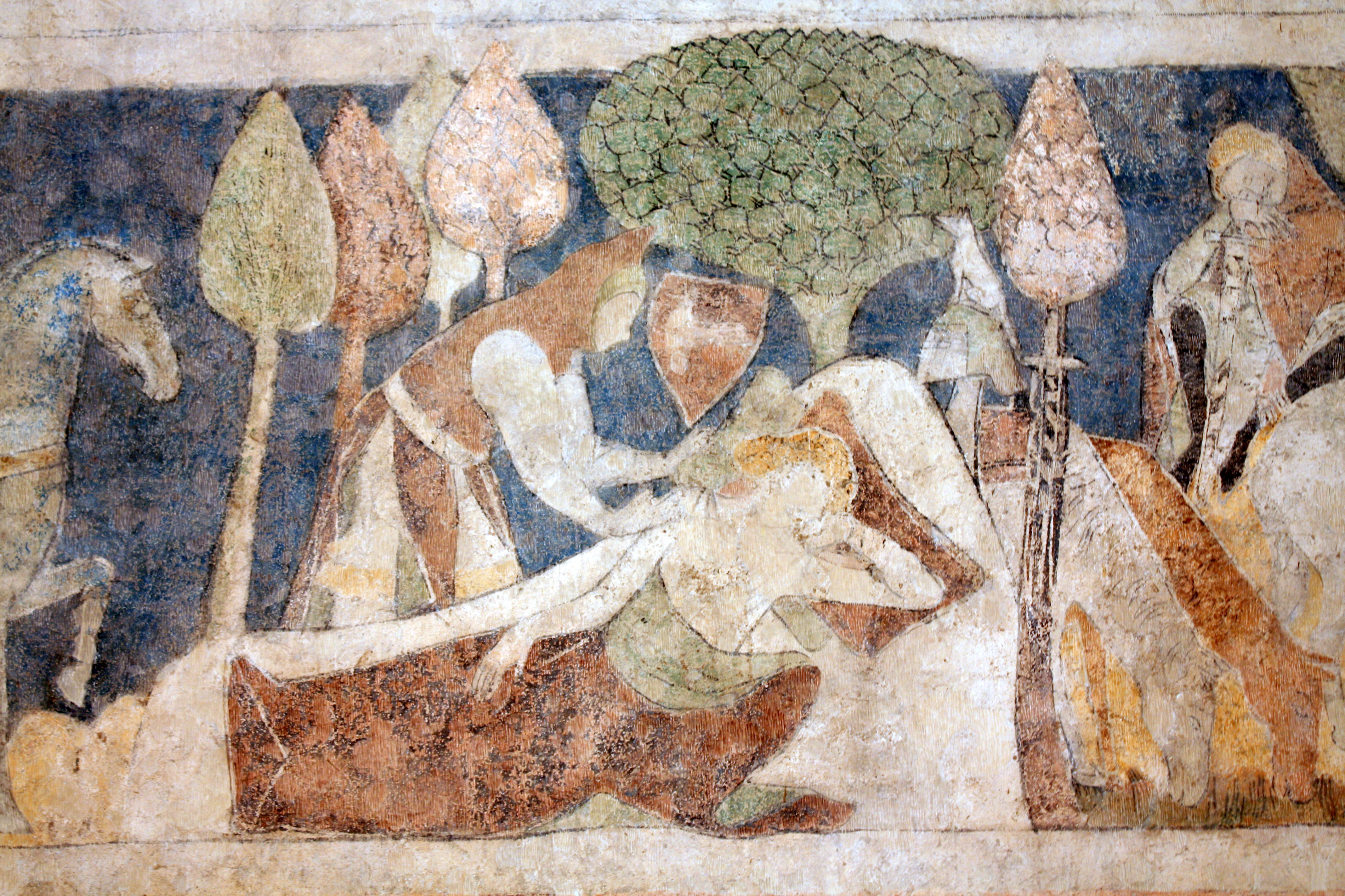 This photo of Lower Silesian Voivodeship was taken during Wikiexpedition 2013 set up by Wikimedia Polska Association.You can see all photographs in category Wikiekspedycja 2013.